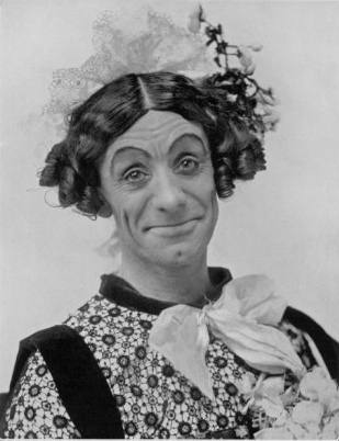 Dan Leno as a pantomime "dame" in Jack and the Beanstalk (1899). Leno is shown in costume as the character Dame Trot in this pantomime, produced at the Theatre Royal, Drury Lane, which opened in London at Christmas 1899.